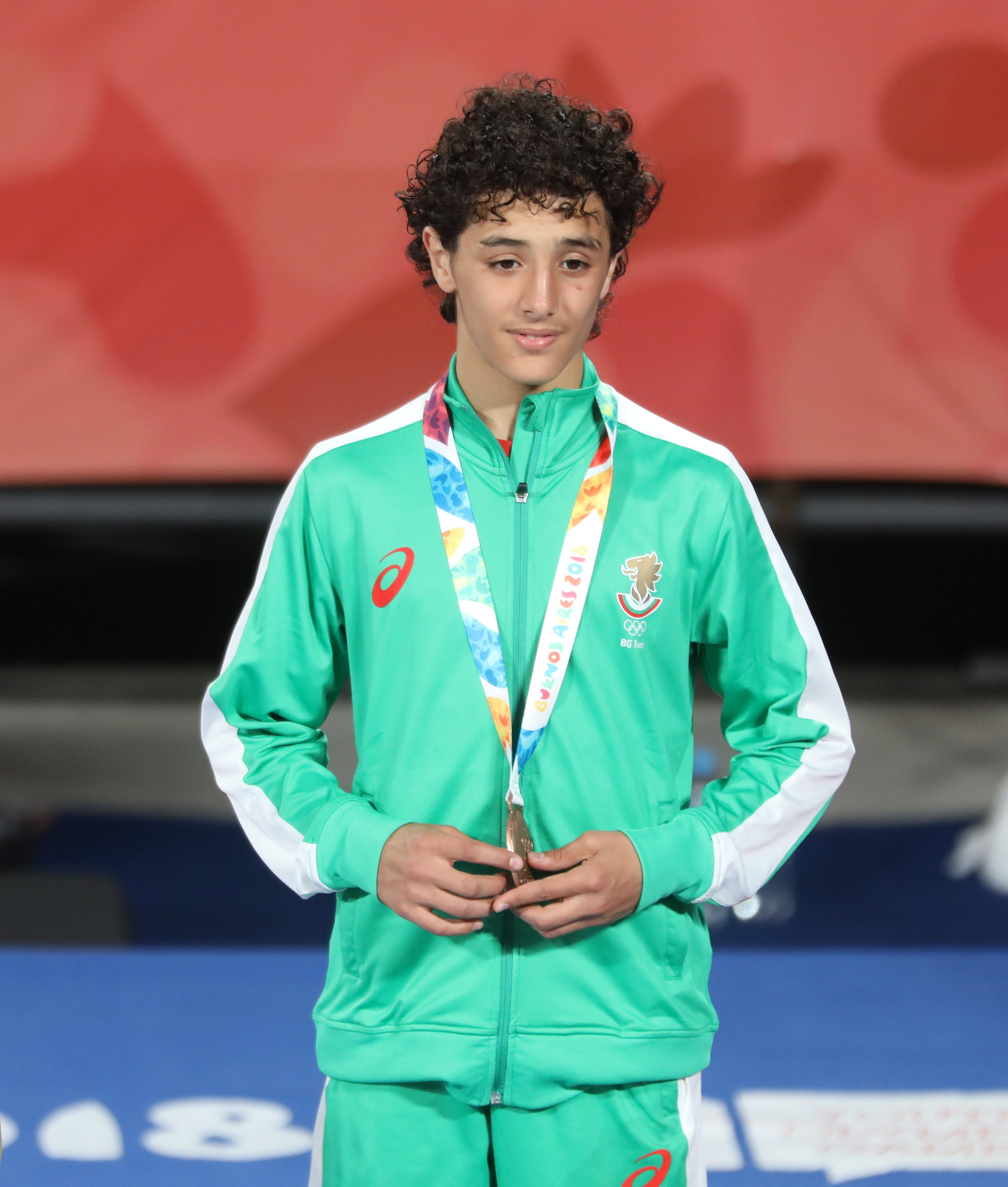 Wrestling victory ceremony of the boys 45 kg at the 2018 Summer Youth Olympics in Buenos Aires on 12 October 2018.